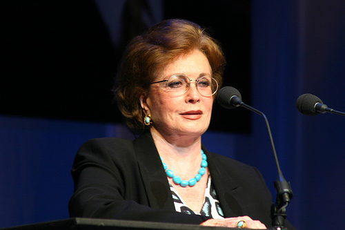 Madame Jehan Sadat spoke at the Dean Lesher Regional Center for the Arts in Walnut Creek, California, on Tuesday, April 11, 2006.